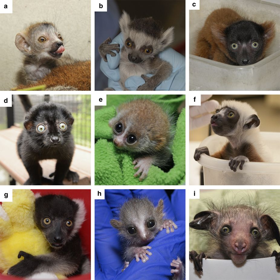 Lemur infants at Duke Lemur Center: (a) Eulemur coronatus / crowned lemur; (b) Lemur catta / ring-tailed lemur; (c) Varecia rubra / red ruffed lemur; (d) Eulemur flavifrons / blue-eyed black lemur; (e) Nycticebus pygmaeus / pygmy slow loris; (f) Propithecus coquereli / Coquerel’s sifaka; (g) Varecia variegata variegata / black-and-white ruffed lemur; (h) Microcebus murinus / gray mouse lemur; (i) Daubentonia madagascariensis / aye-aye.